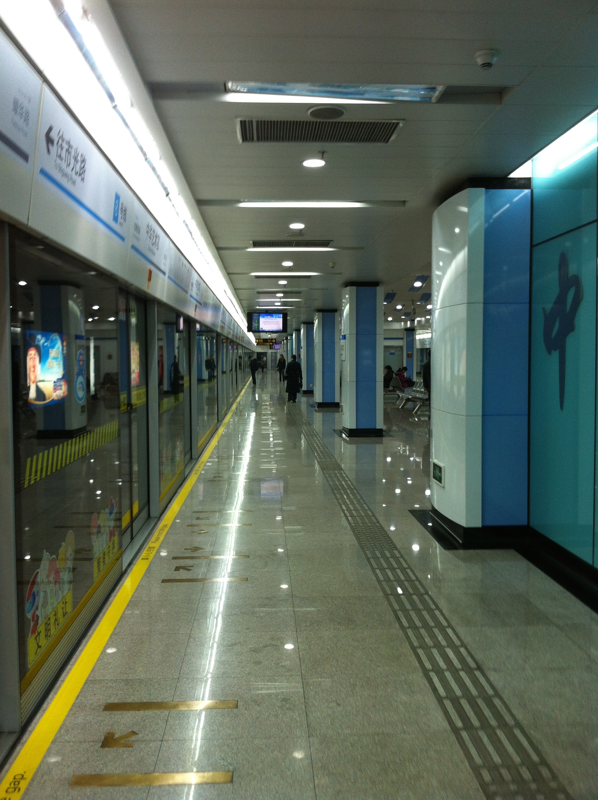 Platform of China Art Museum Station